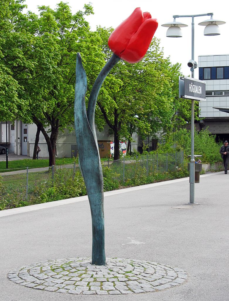 Uppväxter by Birgitta Muhr (1961—) at Högdalen Metro station in Stockholm, Sweden